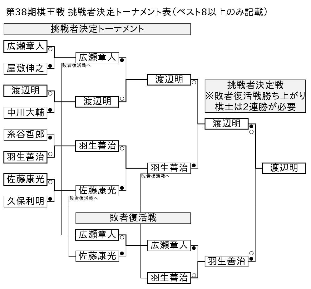 Final tournament for the challenger of the 38th (2012-2013) Kioh title (Shogi).